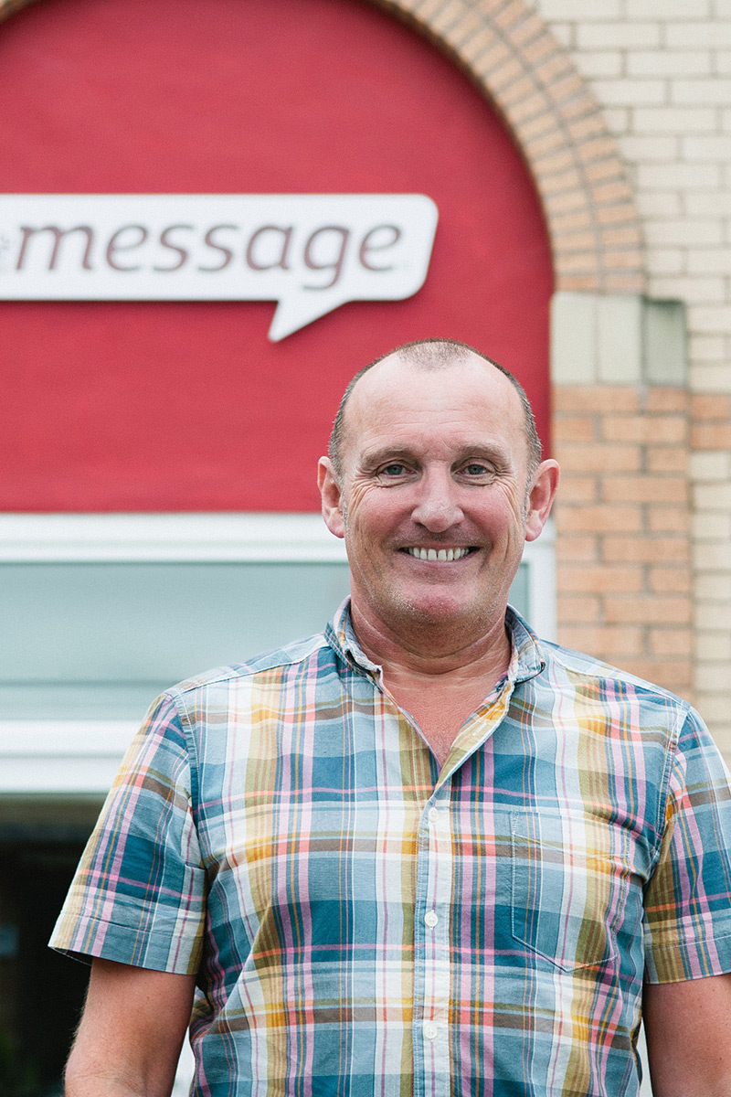 Message Trust founder an dCEO Andy Hawthorne outside Message Trust HQ in Manchester UK, July 2014.jpg